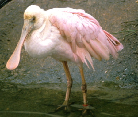 A Roseate Spoonbill Contents 1 Source 2 Summary 3 Licensing 4 Original upload log Source Cropped from U.S. Fish and Wildlife Service Digital Library System Summary Title: Roseate Spoonbill Creator: Martin, Richard Source: WO565-006 Publisher: U.S. Fish and Wildlife Service Contributor: DIVISION OF PUBLIC AFFAIRS Rights: (public domain) Subject: Birds, Animals, Wildlife, Wetlands Available: November 12 2001 Issued: November 08 2001 Modified: November 12 2001